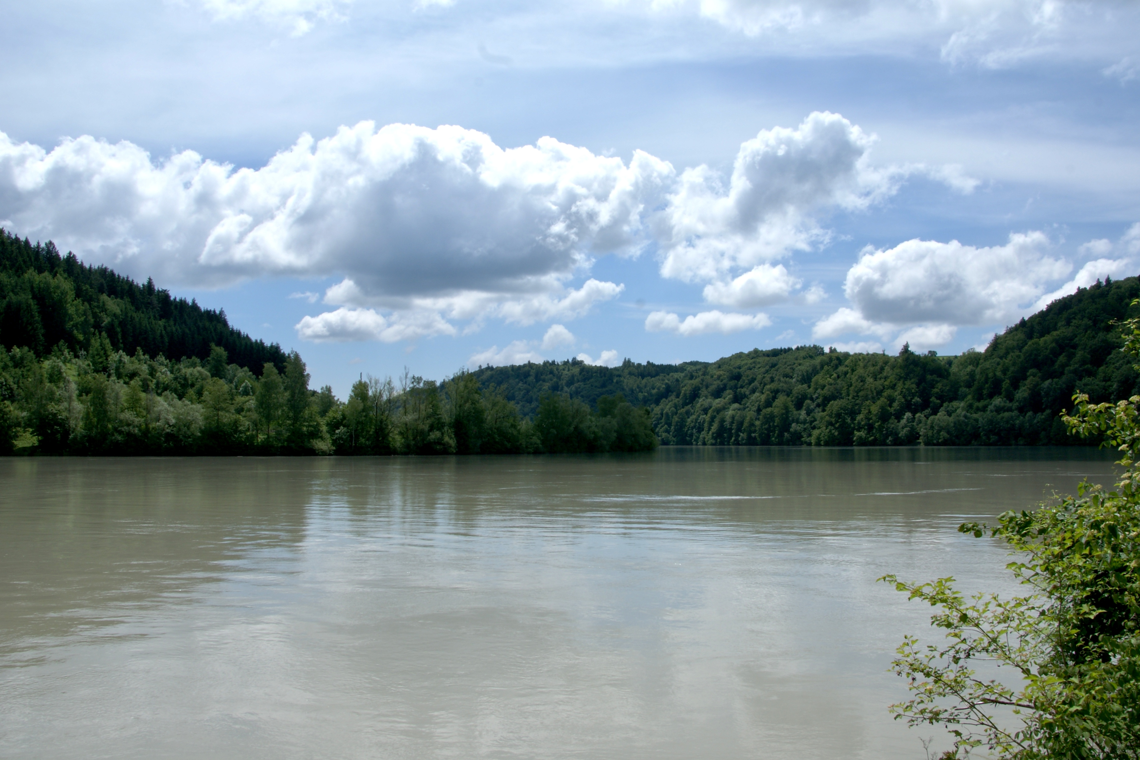 Inn River between Passau and Wernstein